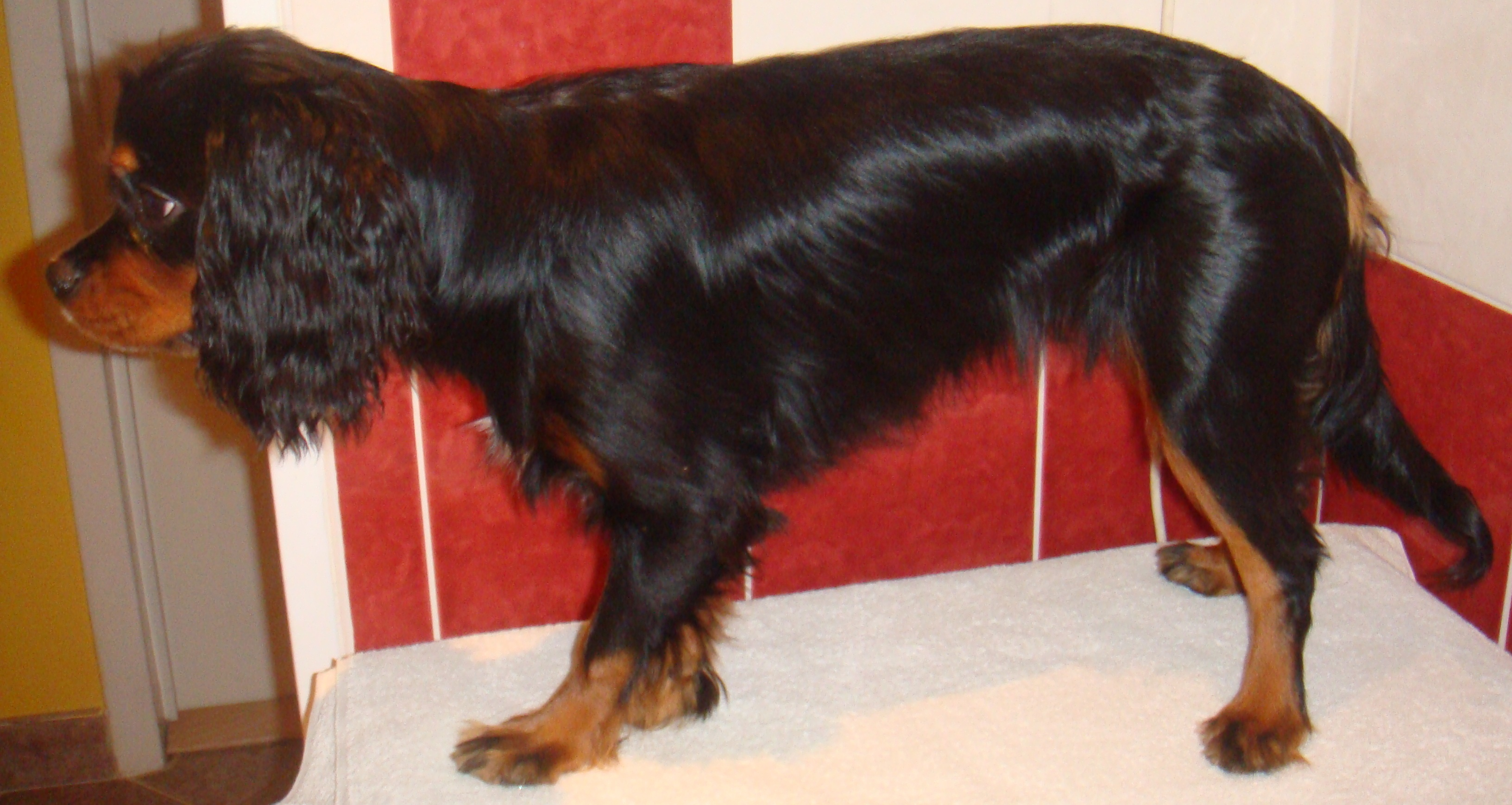 Body of cavalier